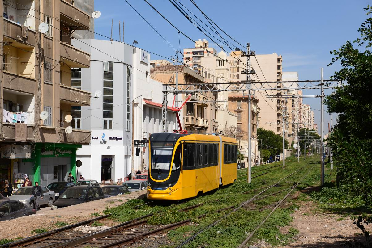 Tram Tatra-Yug in Alexandria near station El Ibrahimia in February 2020